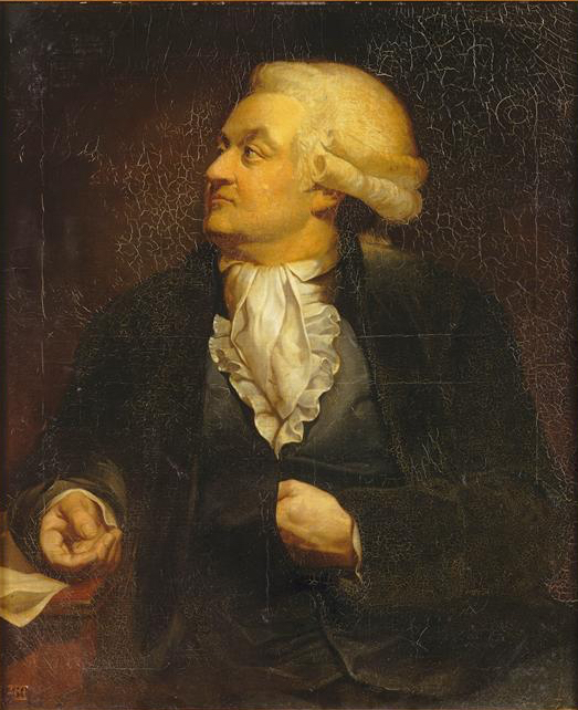 Commissioned by Louis Philippe I in 1840